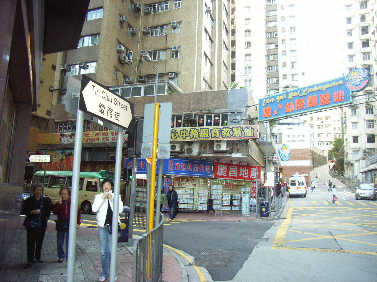 電照街 (Tin Chiu Street) & 七姊妹道（Tsat Tsz Mui Road）交界. Photographer is User:Huang Kong Hing